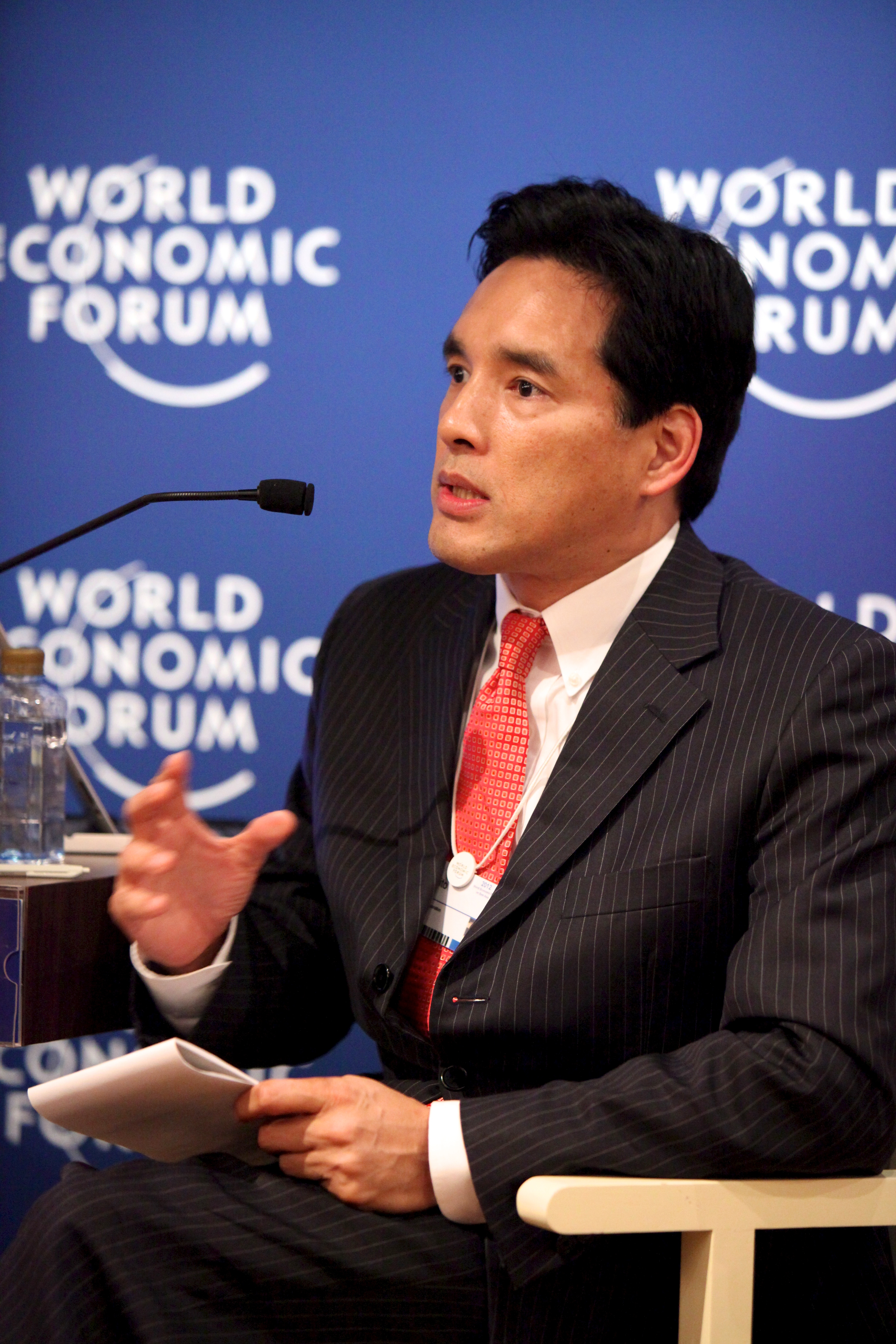 BANGKOK/THAILAND, 01June12 - Yoshito Hori, Chairman and Chief Executive Officer, GLOBIS; President, Globis University; Managing Partner, Globis Capital Partners, Japan; Global Agenda Council on New Models of Leadership, is captured during the World Economic Forum on East Asia in Bangkok, Thailand, June 01, 2012. Copyright World Economic Forum ( Photo by Sikarin Thanachaiary